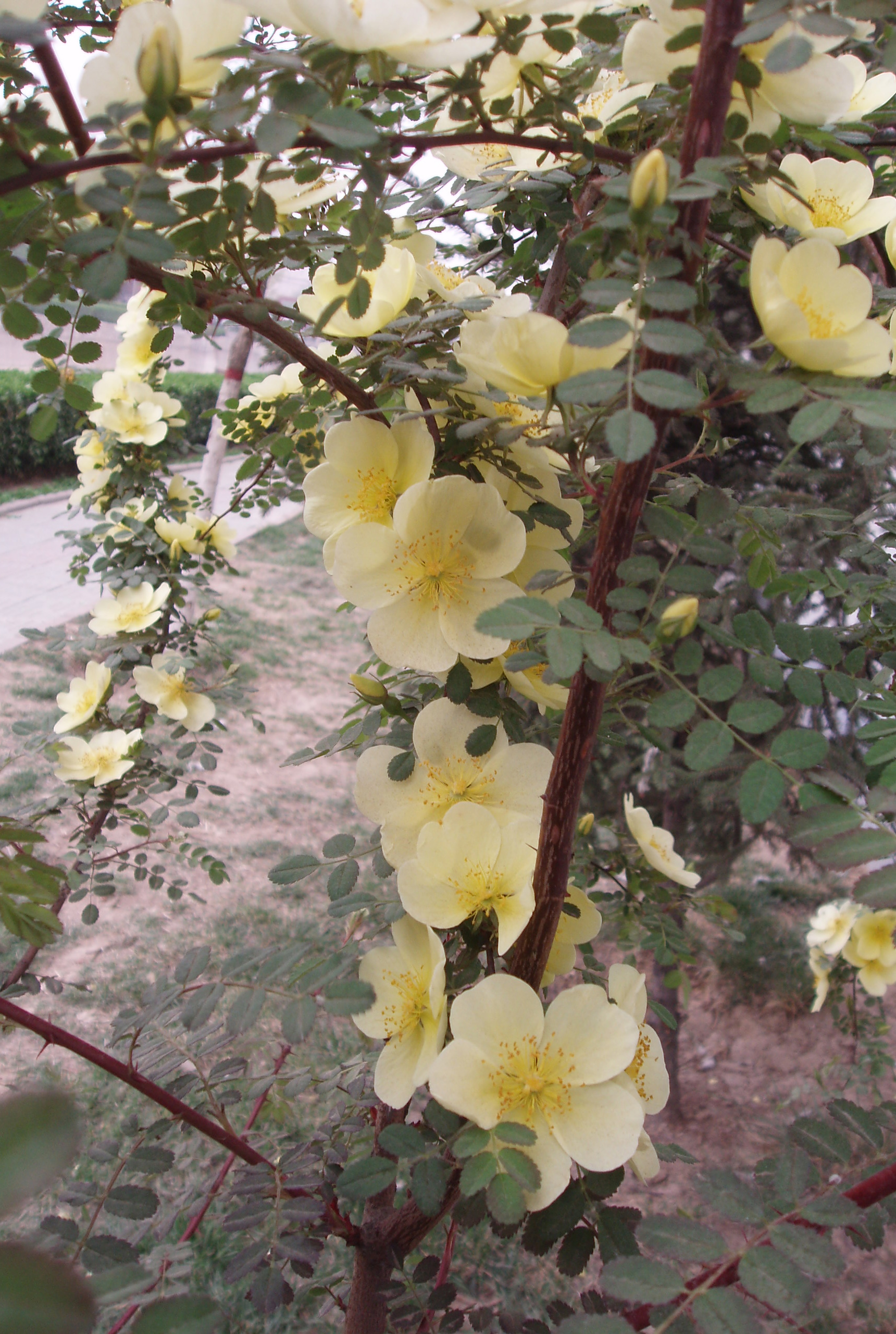 Canary bird flowers